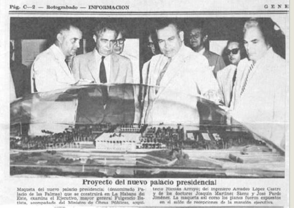 General Fulgencio Batista viewing model of presidential palace in the Plan Piloto presidential palace Havana Cuba. 1958.